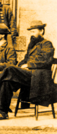 William A. Webb while at Fort Warren, Boston Harbor, Massachusetts